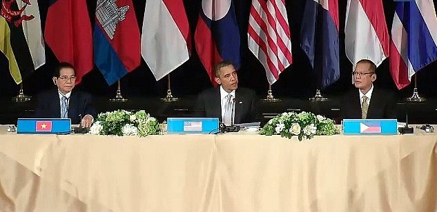 A screen shot from this White House video. Original caption: The President attends a working lunch with leaders of the Association of Southeast Asian Nations around the United Nations General Assembly Meeting in New York City.